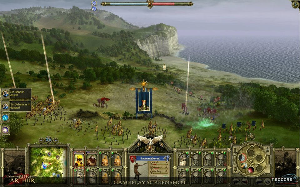 Image is of a screenshot from King Arthur: The Role-playing Wargame, a NeocoreGames video game.